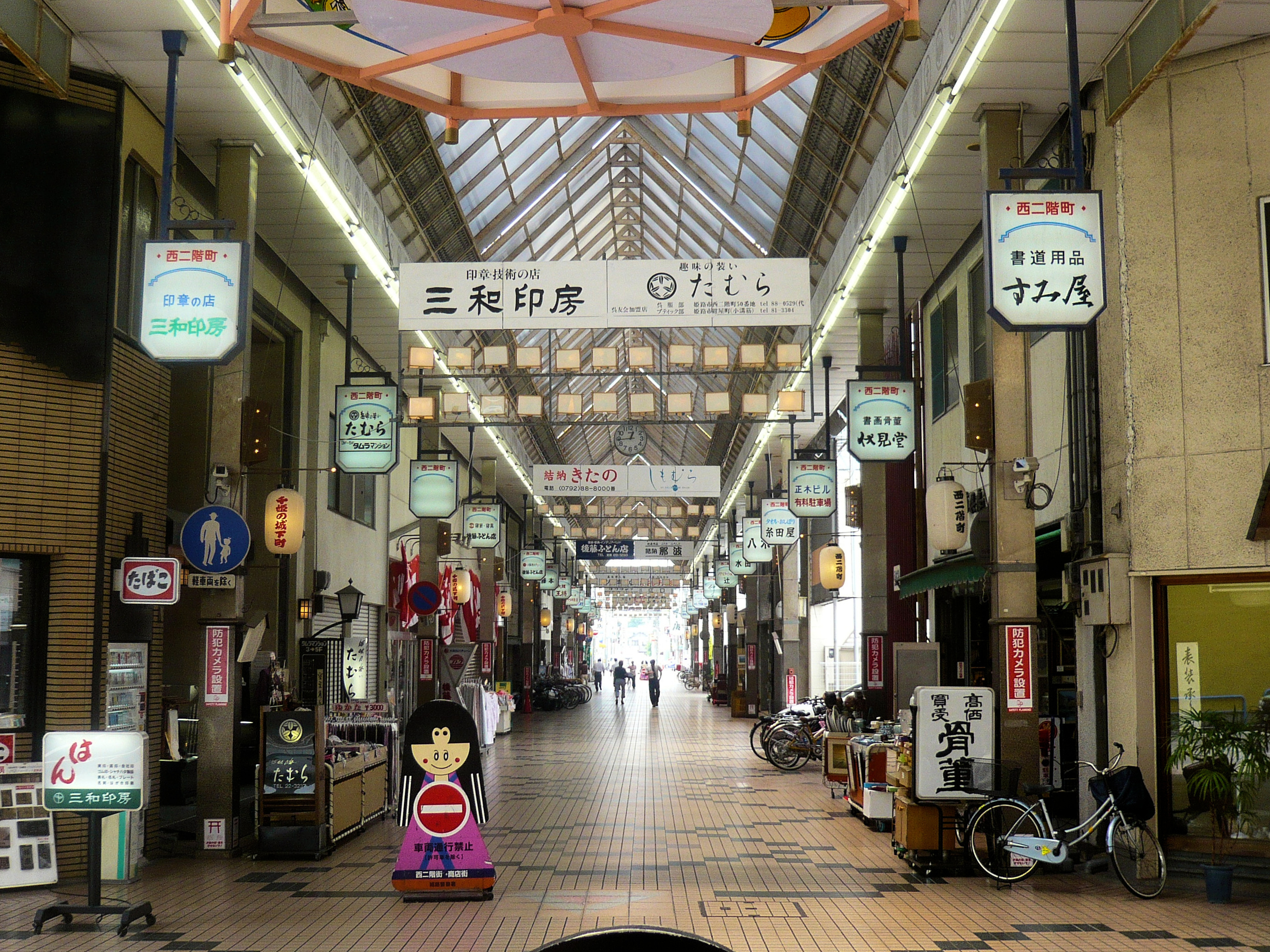 Nishi-nikaimachi in Himeji, Hyogo pref., Japan.